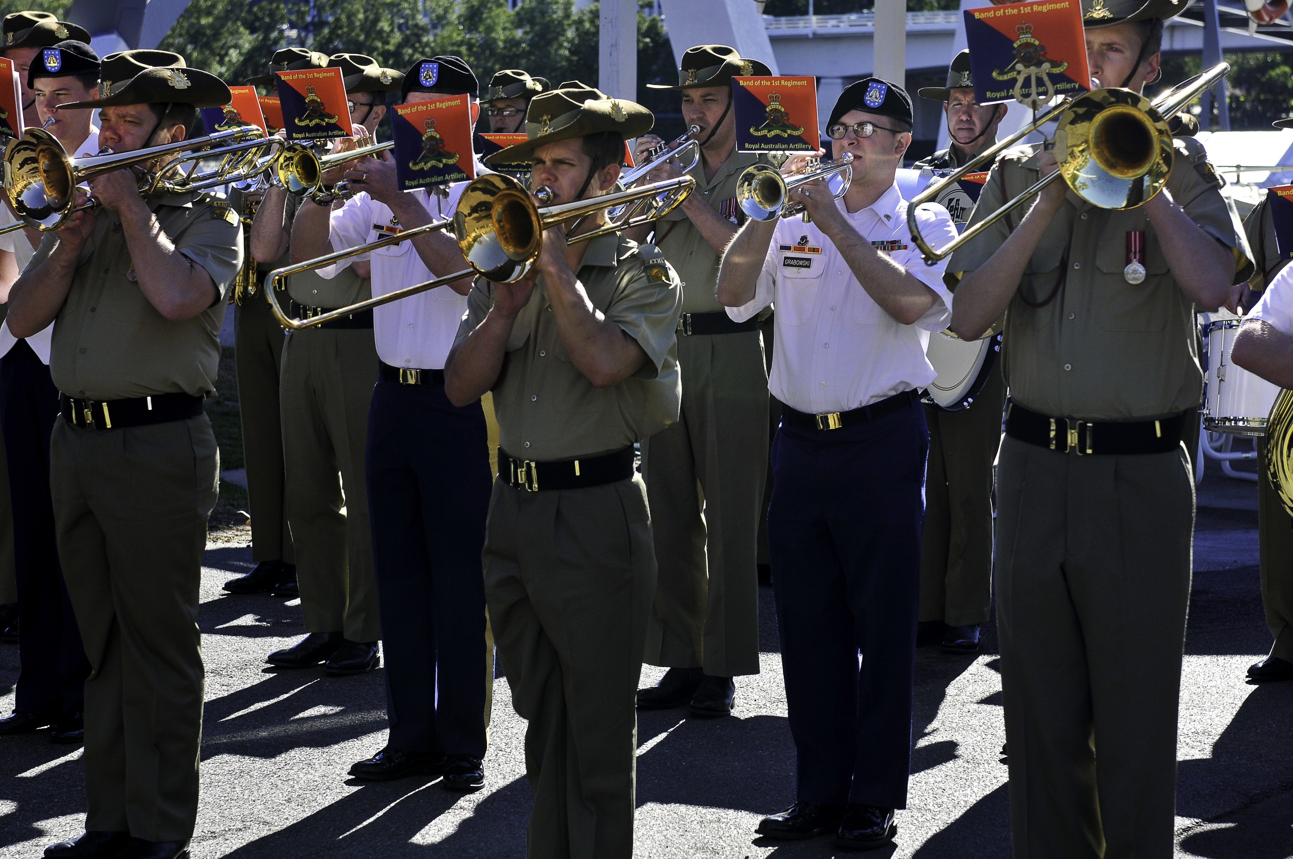 Soldiers from the 56th Army Band, I Corps prepare to play with the 1st Regiment, Royal Australian Artillery Band in Brisbane during the 70th Annual Commemoration Service for Operation Rimau July 12. This was the first public performance for the U.S. and Australian bands during Talisman Sabre 15.